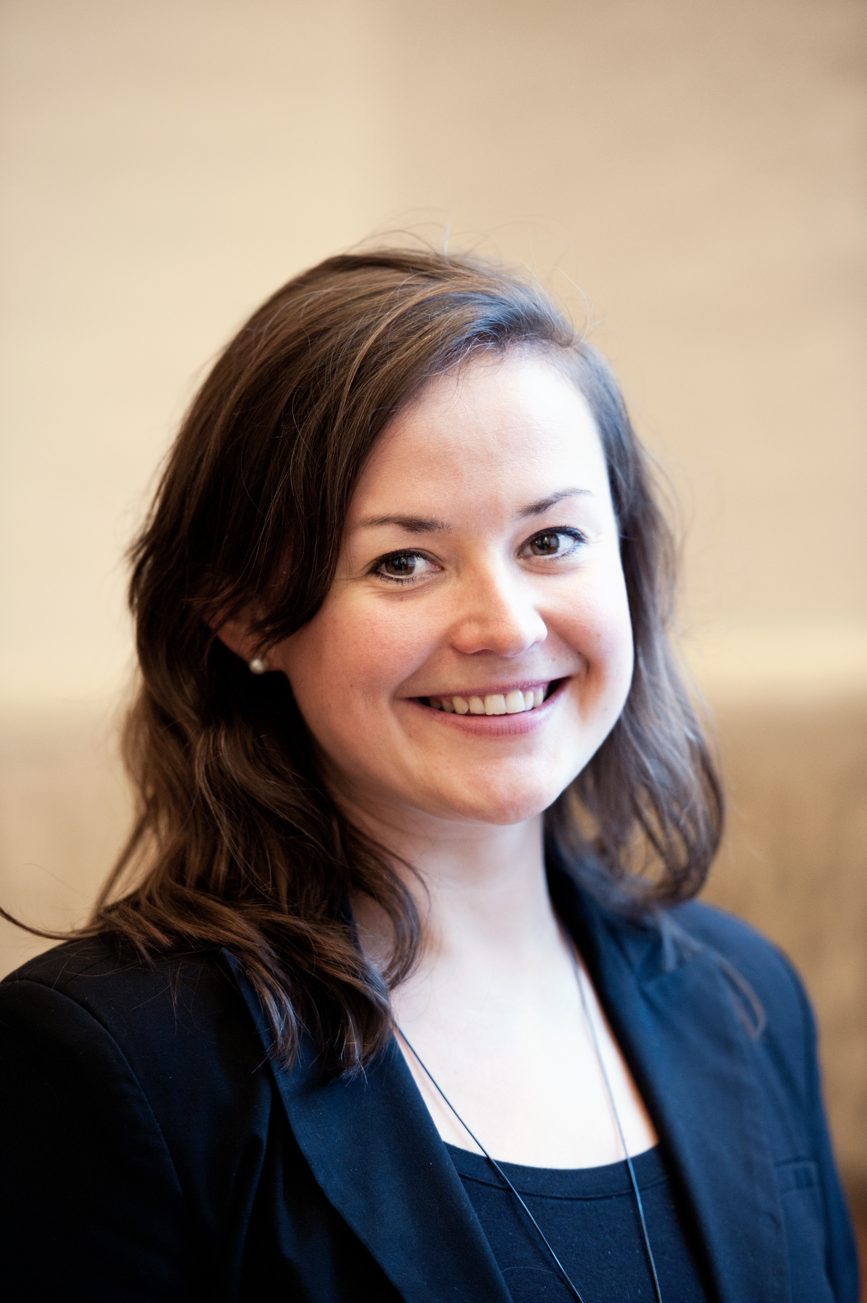 Silja Borgarsdóttir Sandelin UNR. Nordiska rådets session i Köpenhamn 2011 Keywords: Silja Borgarsdóttir Sandelin